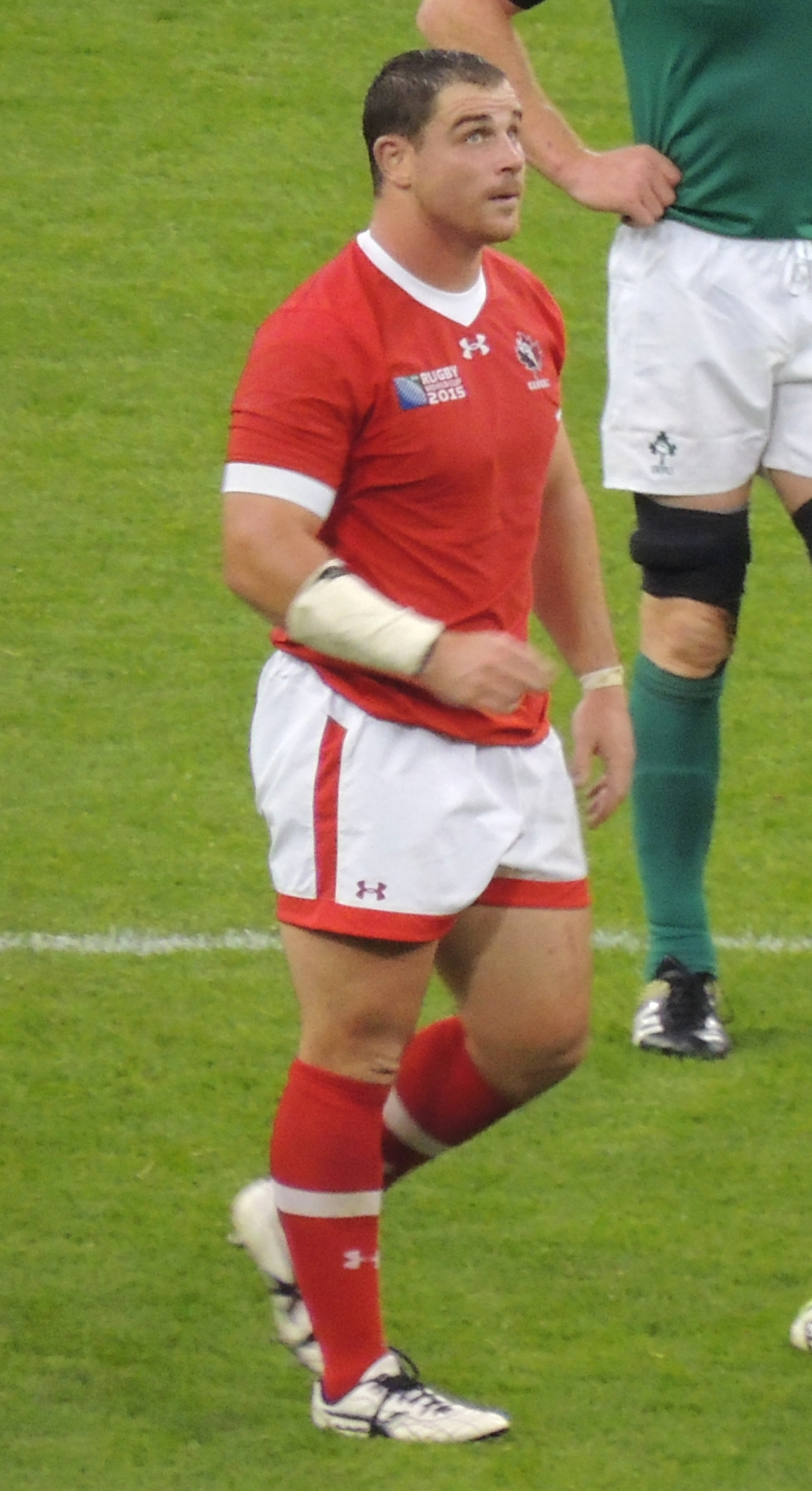 Canadian rugby union player Aaron Carpenter playing in 2015 Rugby World Cup game Ireland vs Canada at Millennium Stadium in Cardiff.